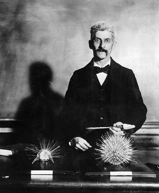 Photo of Edward A. Birge, 1900. Birge (1851–1950) was a professor and administrator at the University of Wisconsin–Madison. He was one of the pioneers of the study of limnology, and served as acting president of the university from 1900 to 1903 and as president from 1918 to 1925.